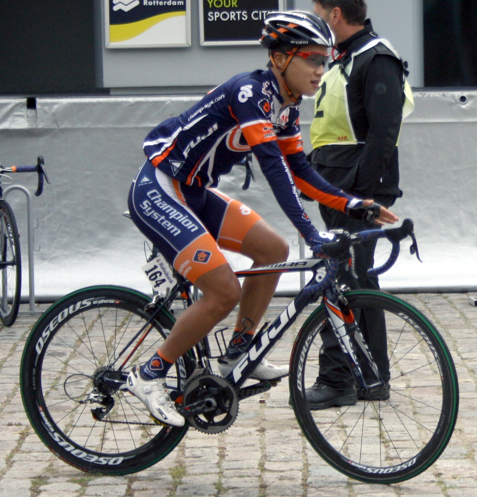 Chan Jae Jang before the start of stage 2 of the World Ports Classic 2013